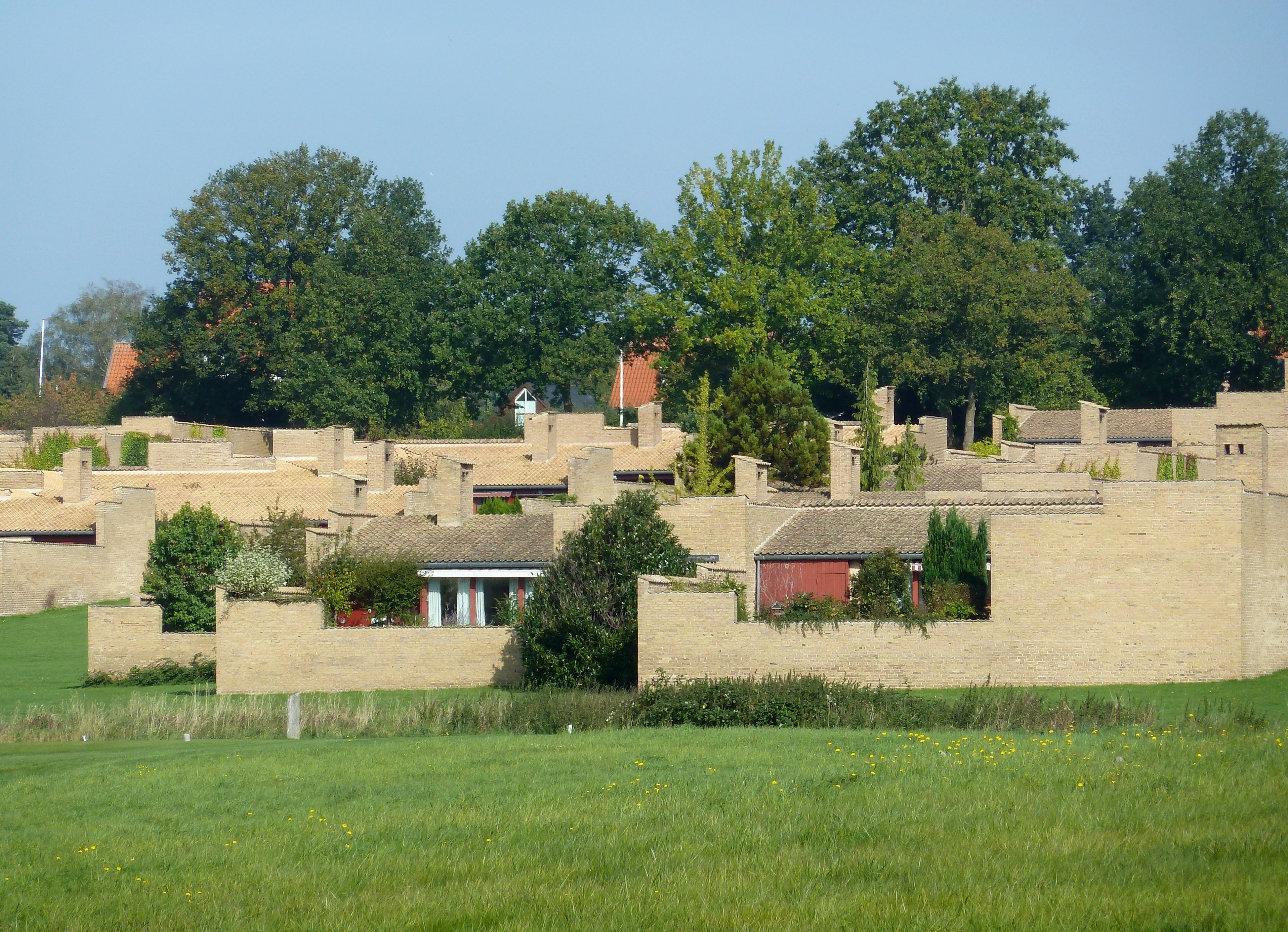 Jørm Utzon's Fredensborg Houses(Fredensborghusene) in Fredensborg, Denmark